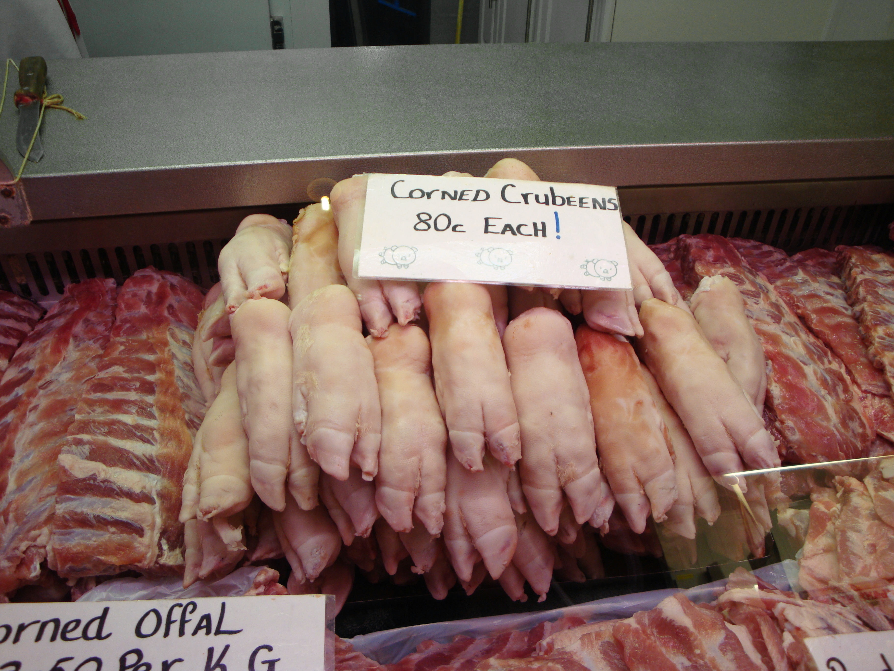 What the Clancy Brothers called the original fast food of Ireland.